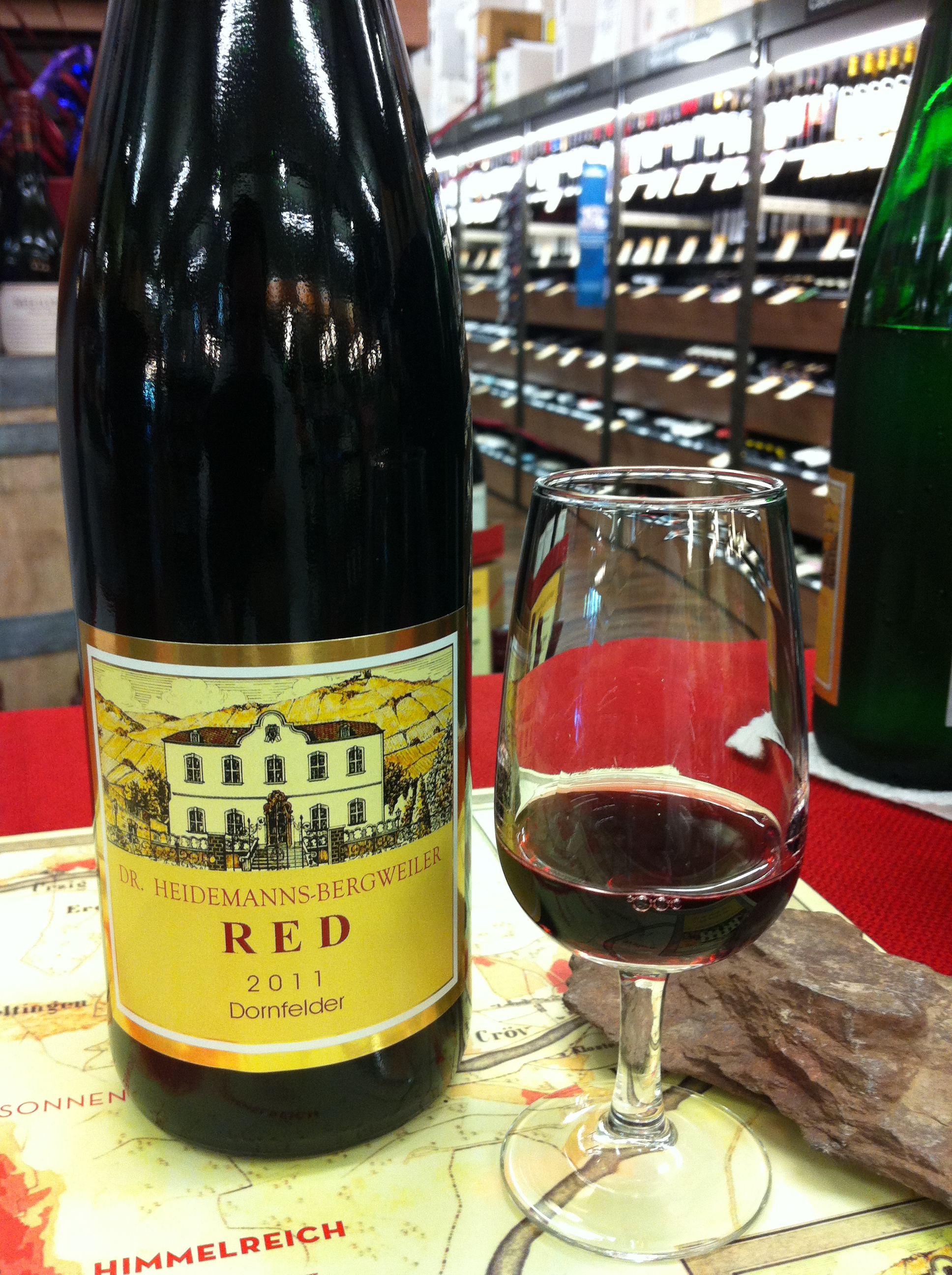 German red wine made from the Dornfelder grape